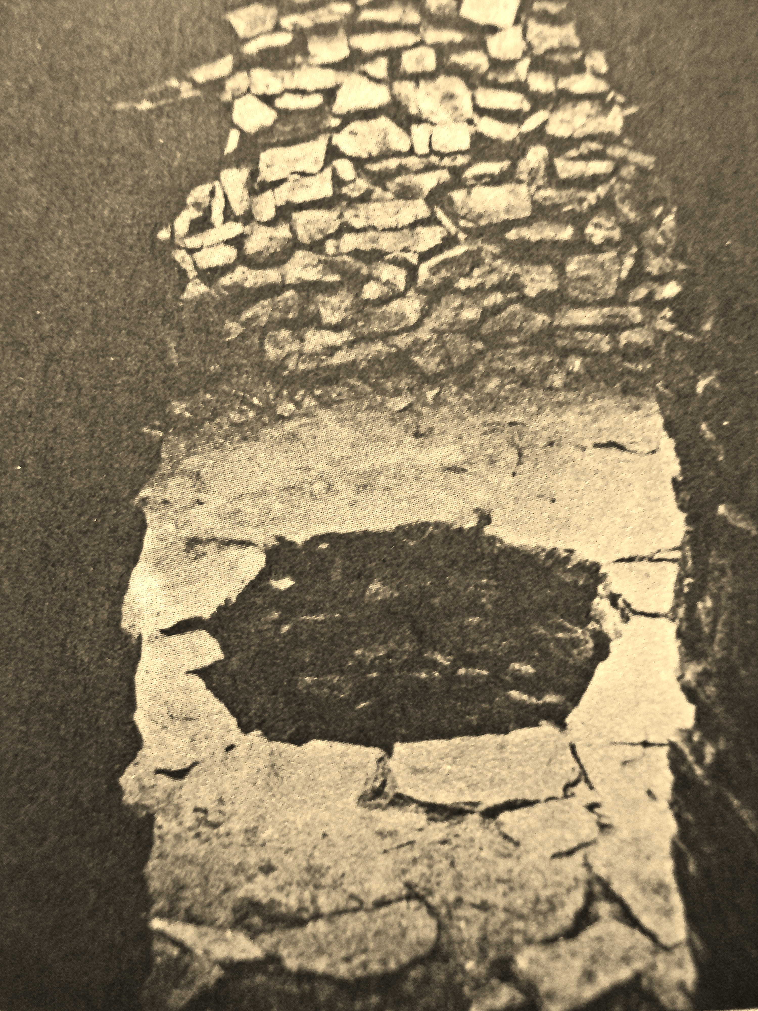 Nuraghe_Bulgaria_Gurlo_1980s1